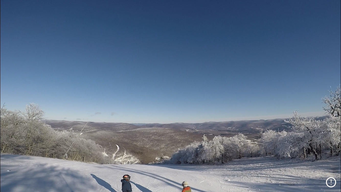 A view from The North Face Trail on Plattekill Mountain looking at the beautiful mountains across from Plattekill Mountain